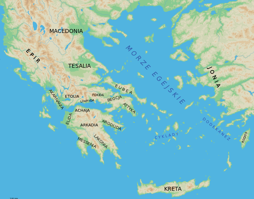 Main regions of Ancient Greece (polish language). Plus large coastal areas of other regions, not mentioned here. Blank svg map was extracted from